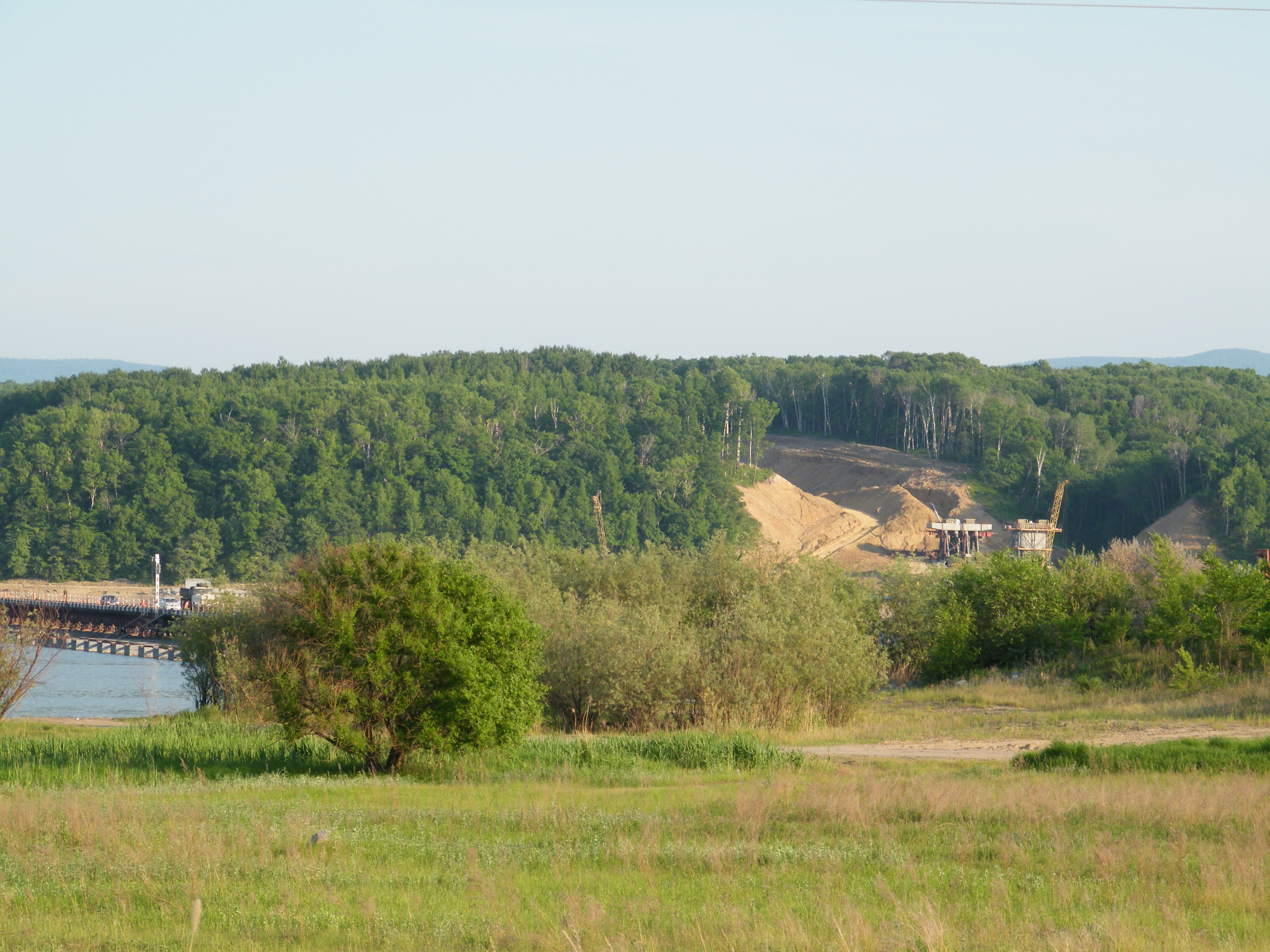 Понтонный мост через Амурскую протоку (слева) и строящийся капитальный переход (справа)